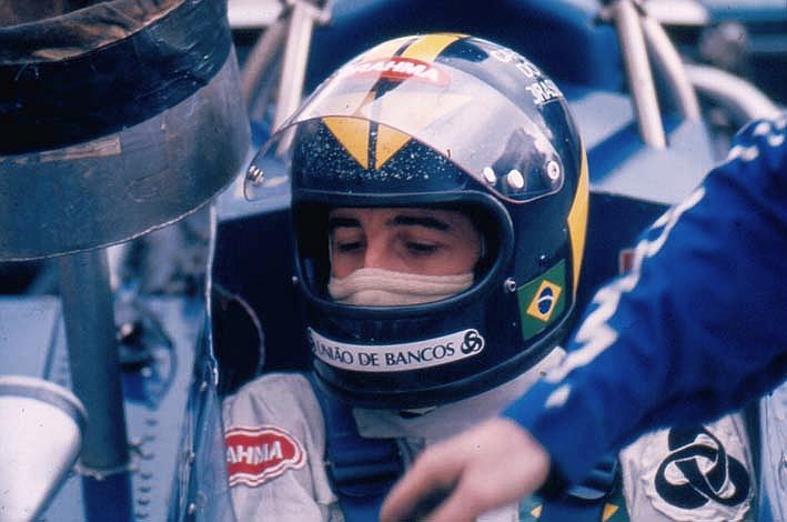 Carlos Pace at the German Formula 1 Grand Prix 1973 at Nürburgring.